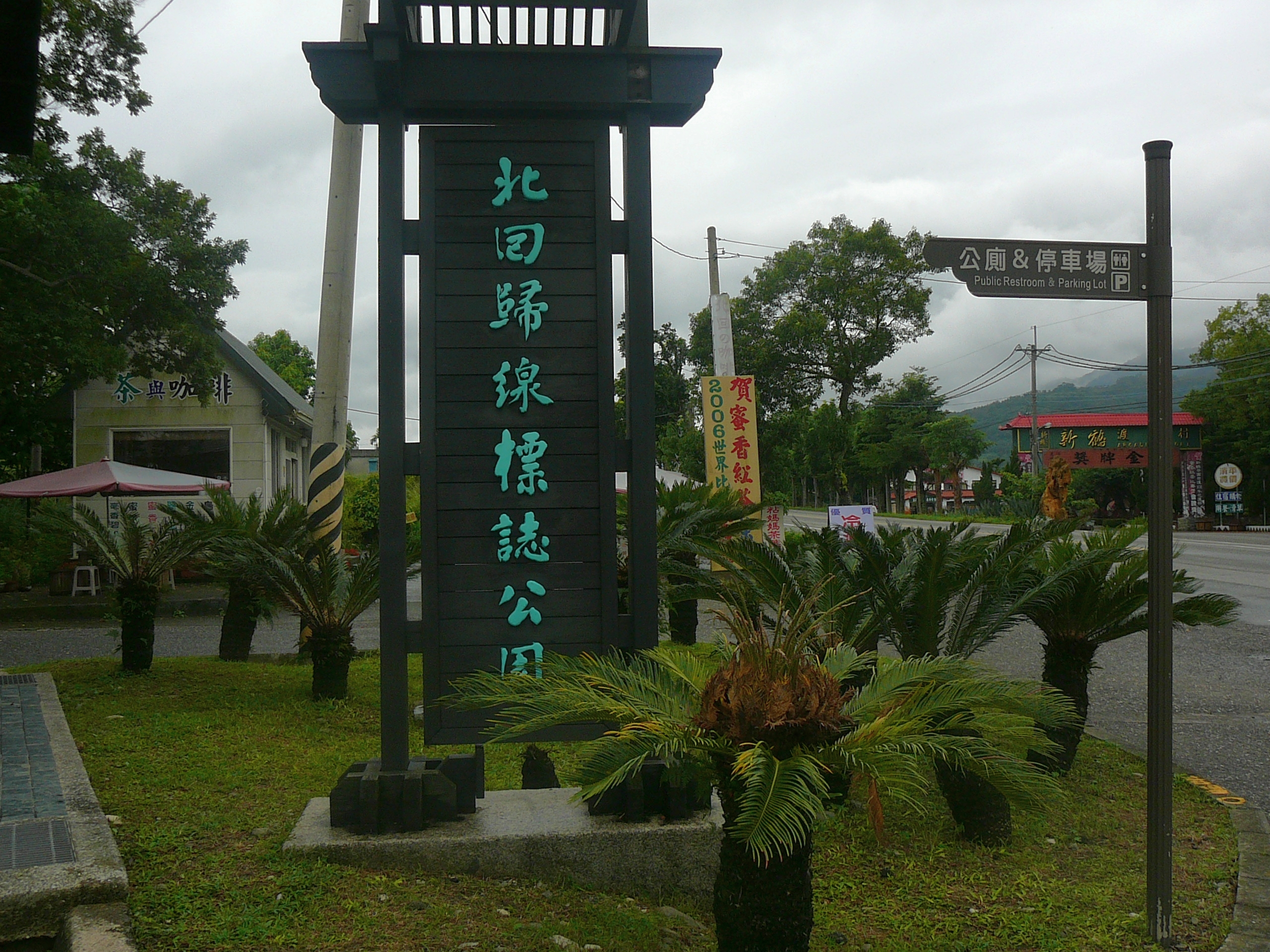 Tropic of Cancer Marker Park in Ruisui Hualien